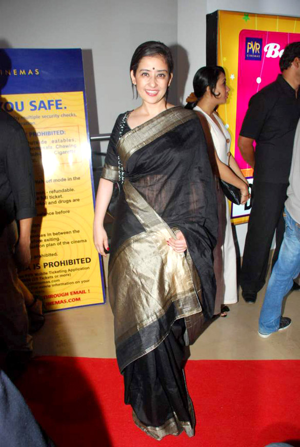 Manisha Koirala at Showcasing of Vidhu Vinod Chopra Production's films